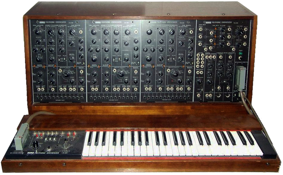 KORG PS-3300 EDIT: reduced the light spot on center, and improved the contrast.